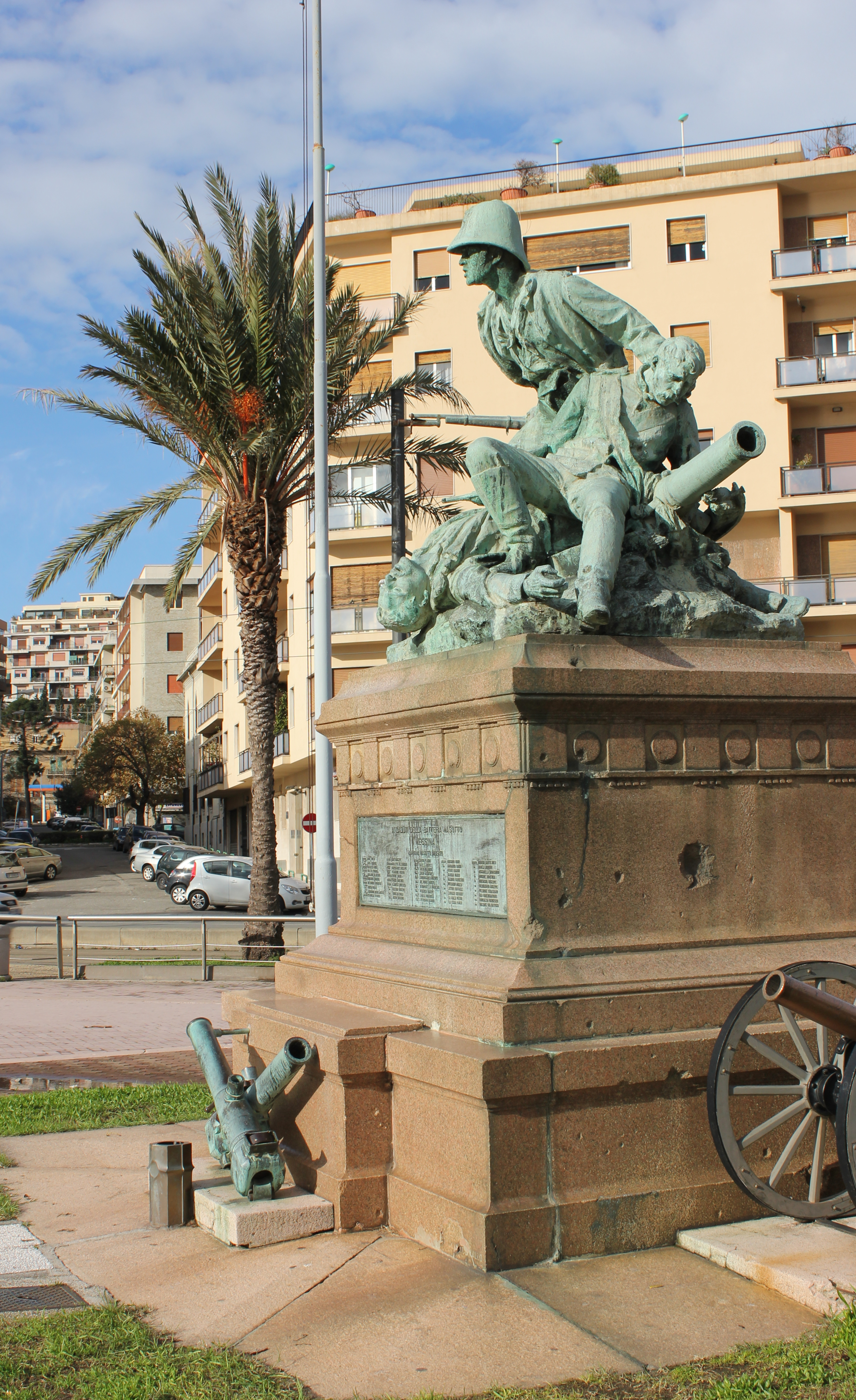 Monumento alla batteria siciliana Masotto